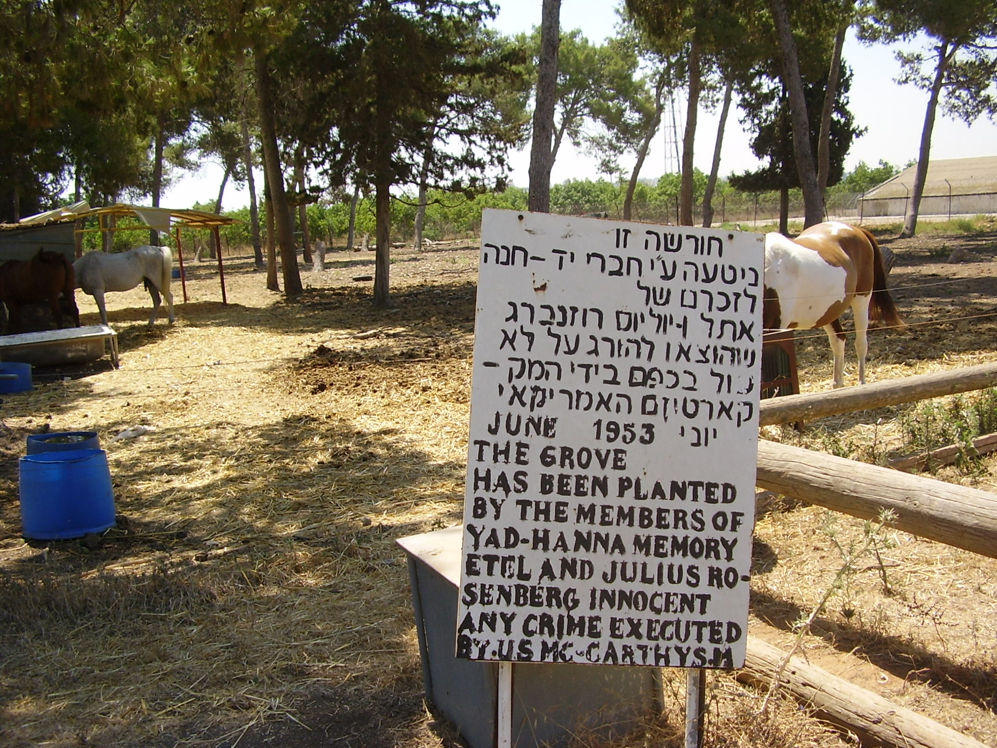 Grove in memory of Julius and Ethel Rosenberg in Kibbutz Yad Hannah, Israel